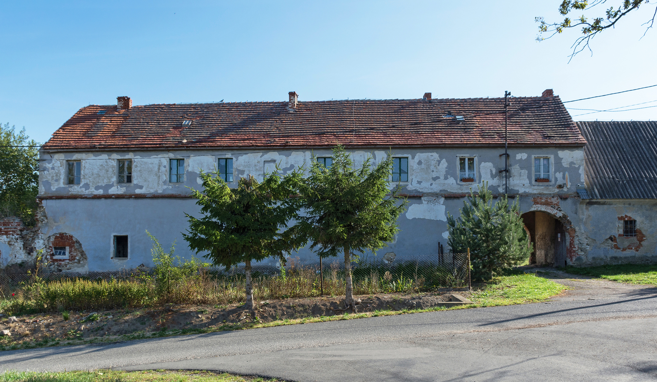 Manor in Starków